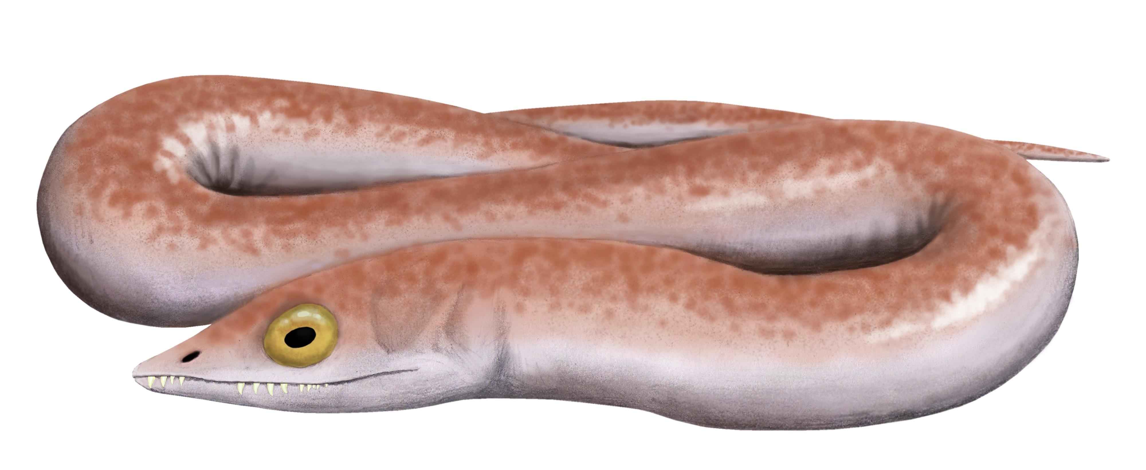 Life restoration of Phlegethontia longissima. Based on figures 1 and 3 of "Direct evidence of the rostral anatomy of the aïstopod Phlegethontia, with a new cranial reconstruction" by Jason S. Anderson. Journal of Paleontology 81(2):408-410.